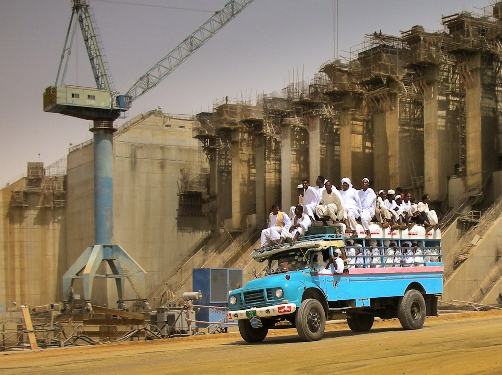 The picture shows one of the typical old Bedford trucks used also for passenger transfer with Sudanese poeple travelling in typical local dress. Taken in front of the Merowe Dam in Sudan during construction, July 2007. Meanwhile the Merowe Dam is under operation and one of the main electrical power sources of Sudan. This is an image with the theme "Africa on the Move or Transport" from: Sudan